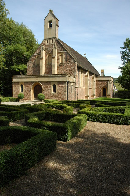 Chapel of the Holy Paraclete, Hom Green, Herefordshire, seen from west-southwest. Now a private house.